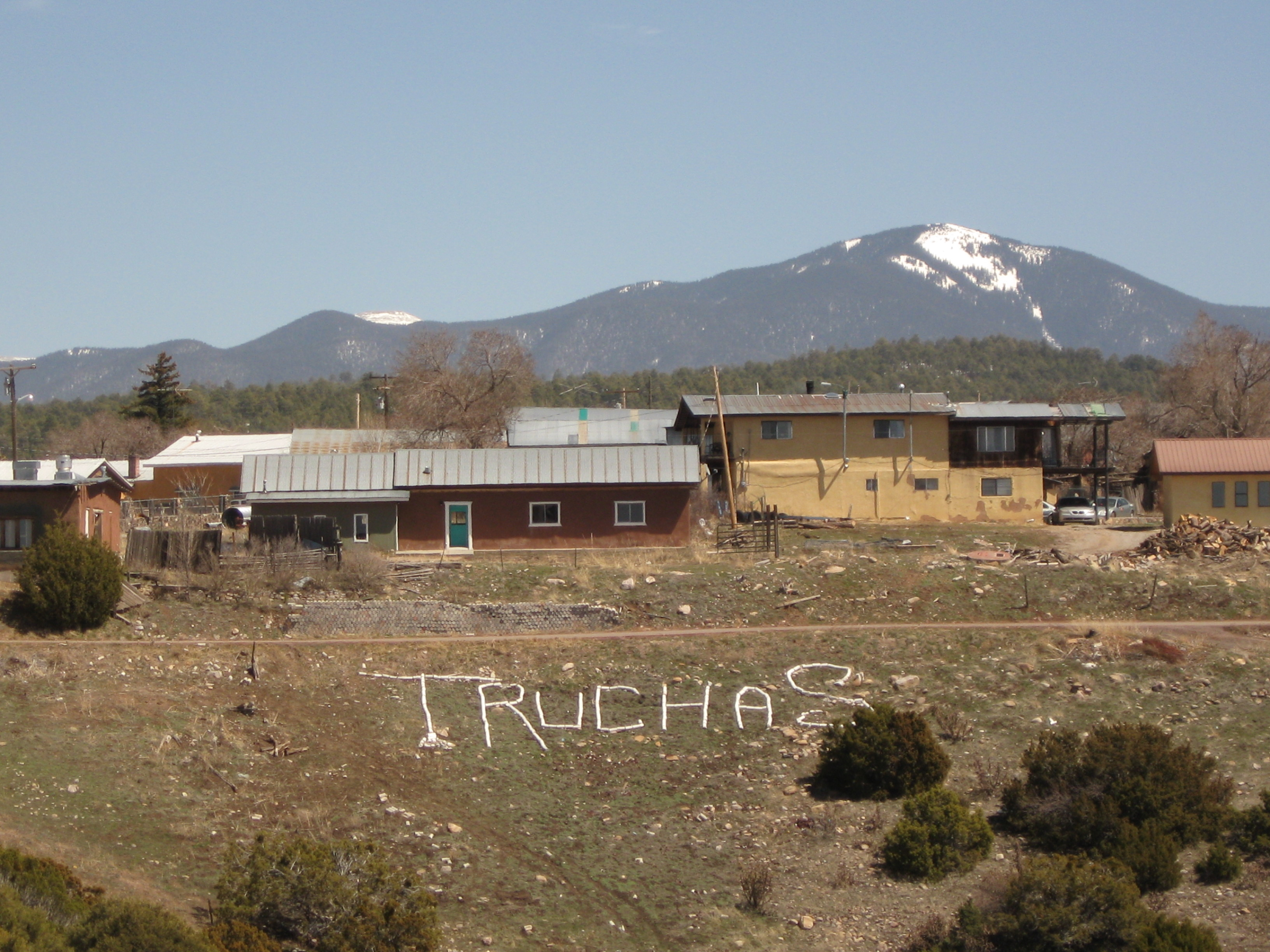 Truchas, New Mexico in early Spring